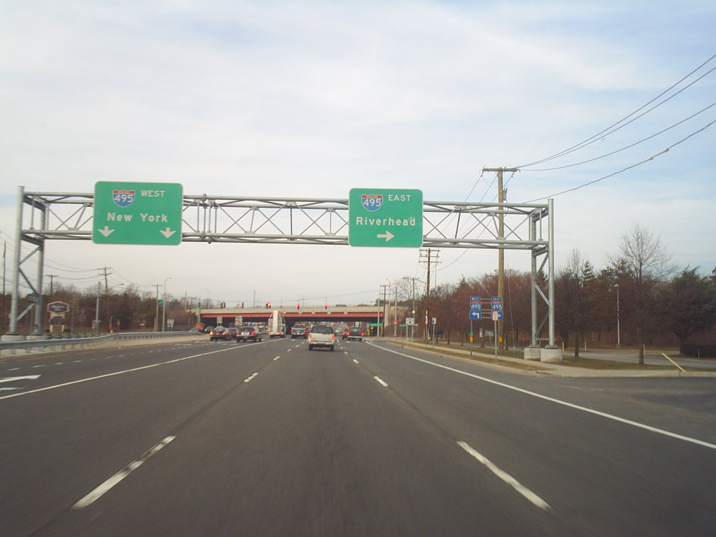 New York State Route 454 heading eastbound approaching the interchange with the Long Island Expressway (Interstate 495) in Islip.